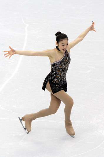 Kim during her short program "007".